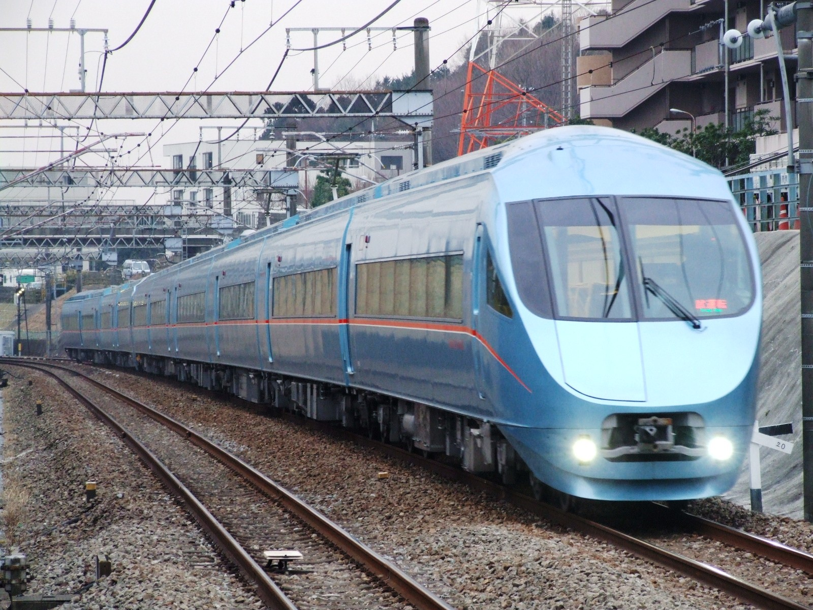 Model 60000 -Odakyu RomanceCar MSE-,Odakyu Electric Railway,Japan